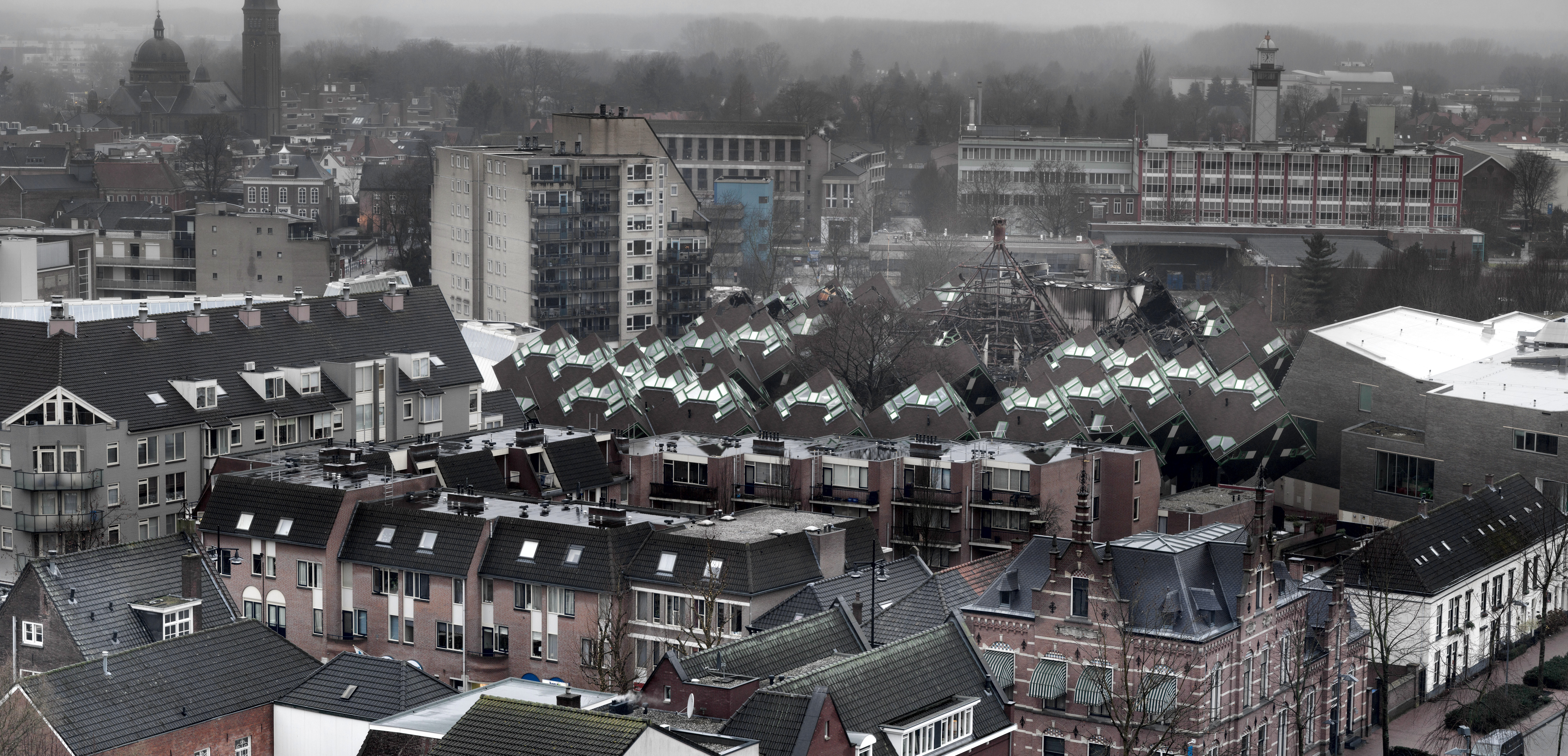 Two days after the fire in the Speelhuis theatre in Helmond, The Netherlands